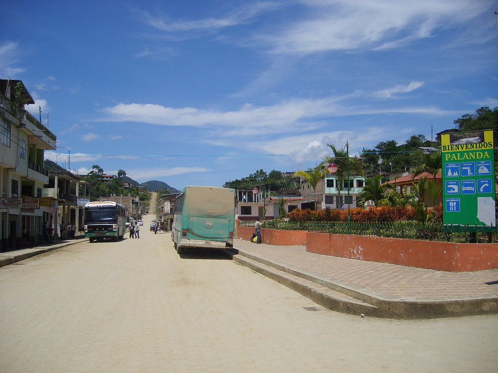 Main square of Palanda in Ecuador.